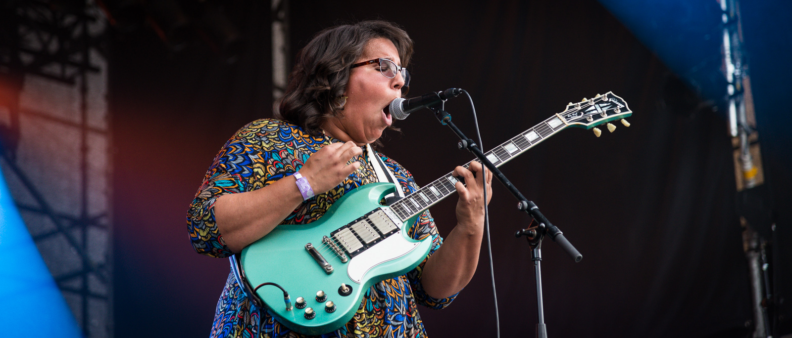 Alabama Shakes live at Øyafestivalen 2013